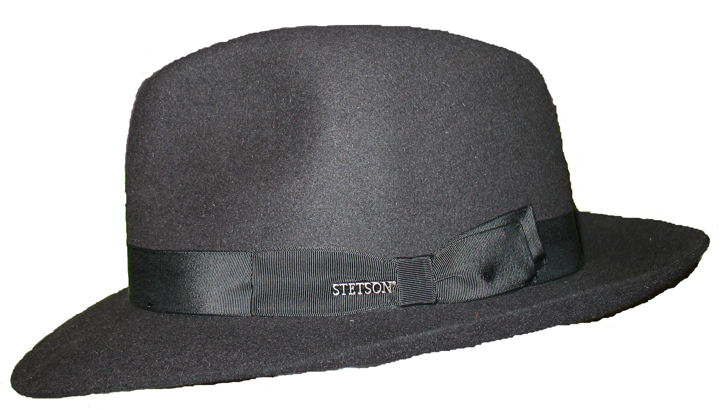 A Stetson hat (fedora).